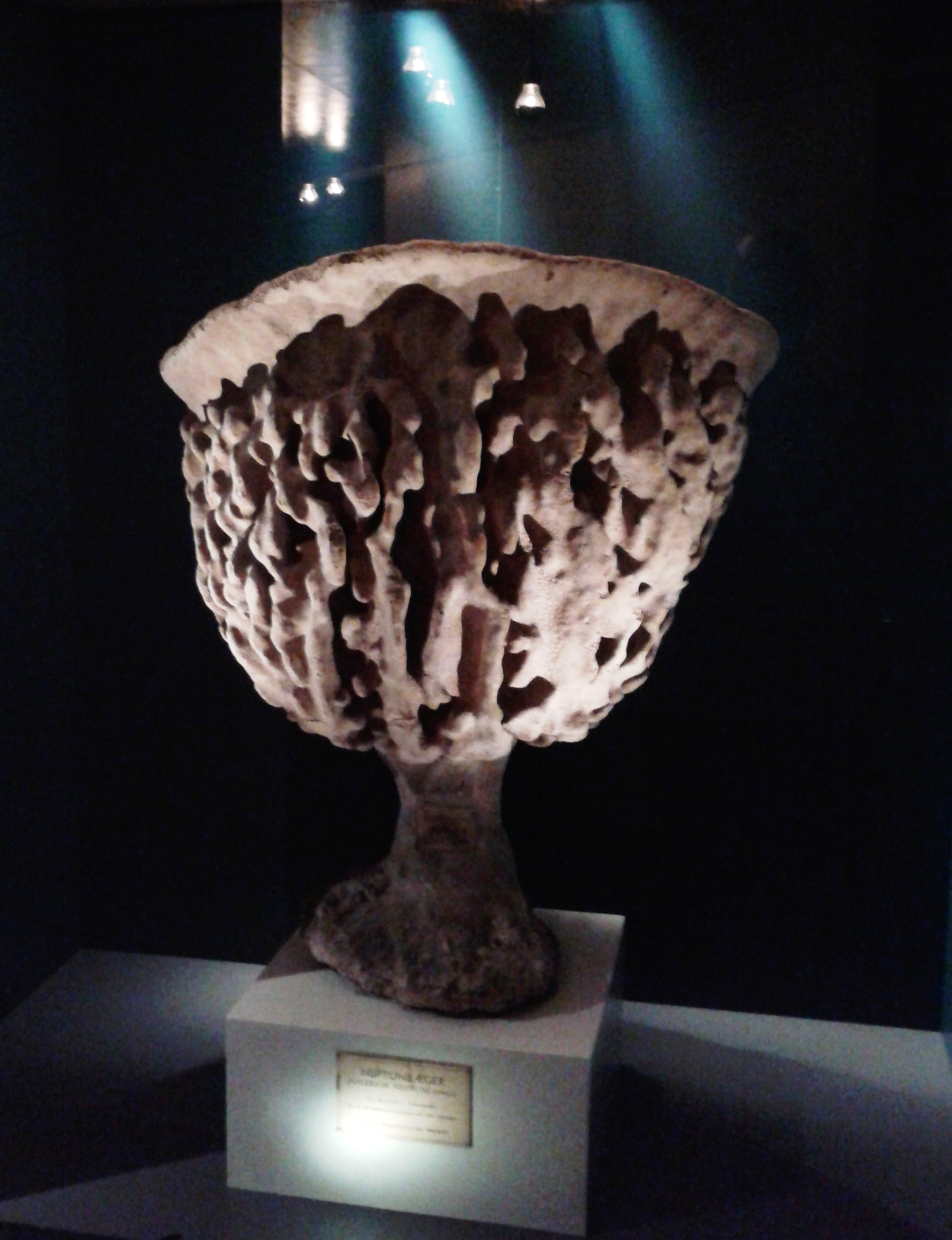 Photograph of a specimen of Neptune's Cup. Photograph taken at the Zoologisk Museum, Copenhagen.